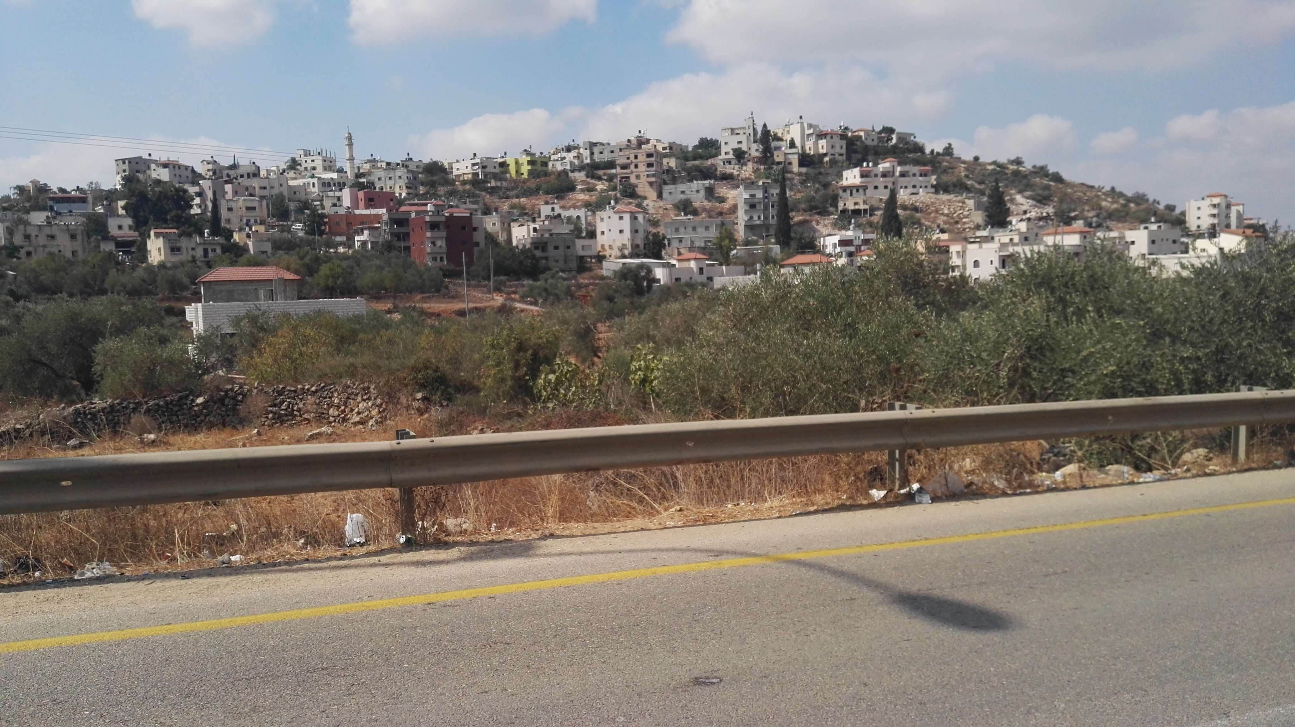 Samaria, near Beit Arye.